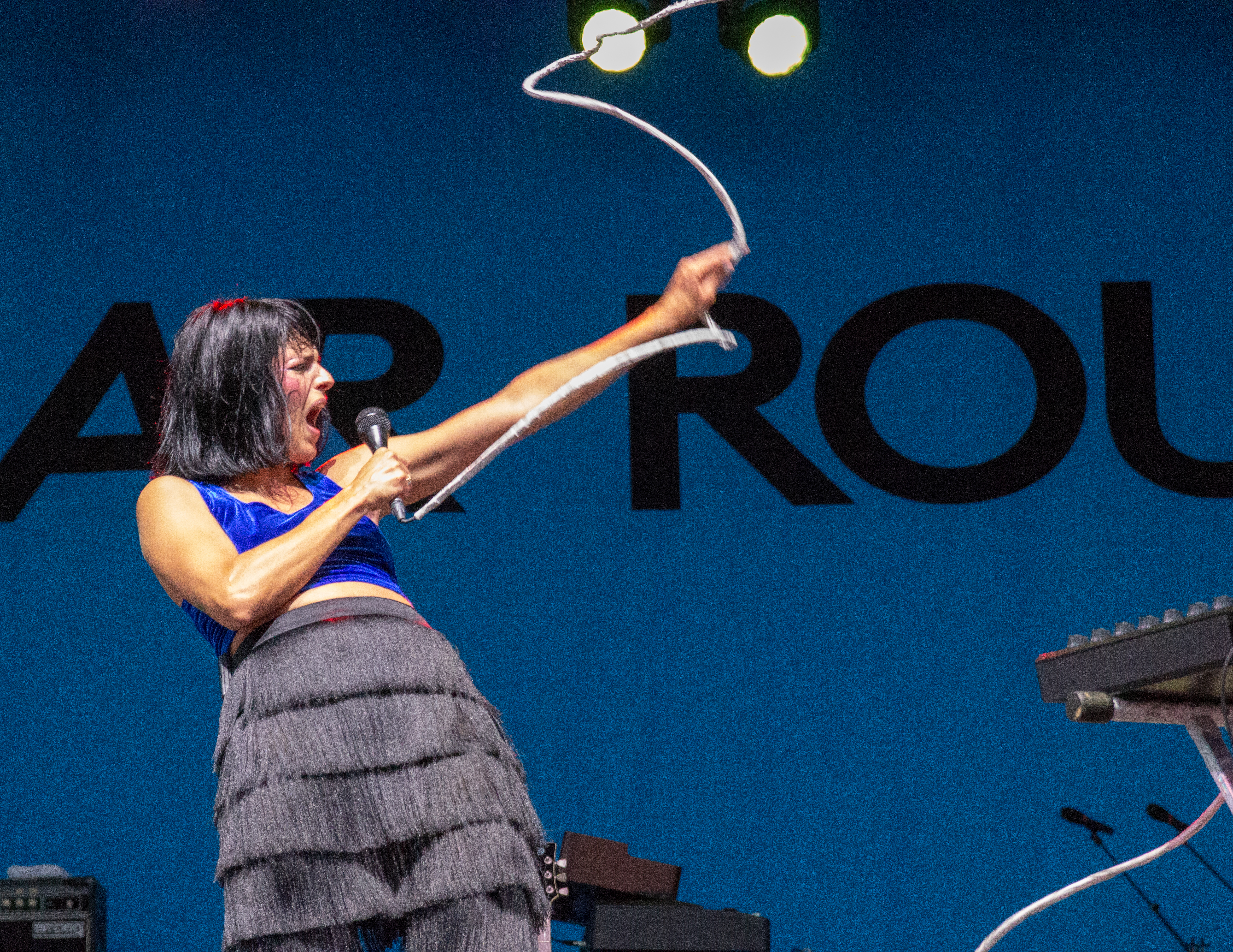 Danielle McTaggart of Dear Rouge performing at the Riverfest Elora festival in June 2019